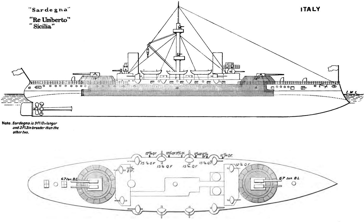 Right elevation and deck plan depicting Italian Re Umberto class battleship. Top diagram (right elevation) shows armour thickness in inches. Bottom diagram (deck plan) shows gun sizes in cm.